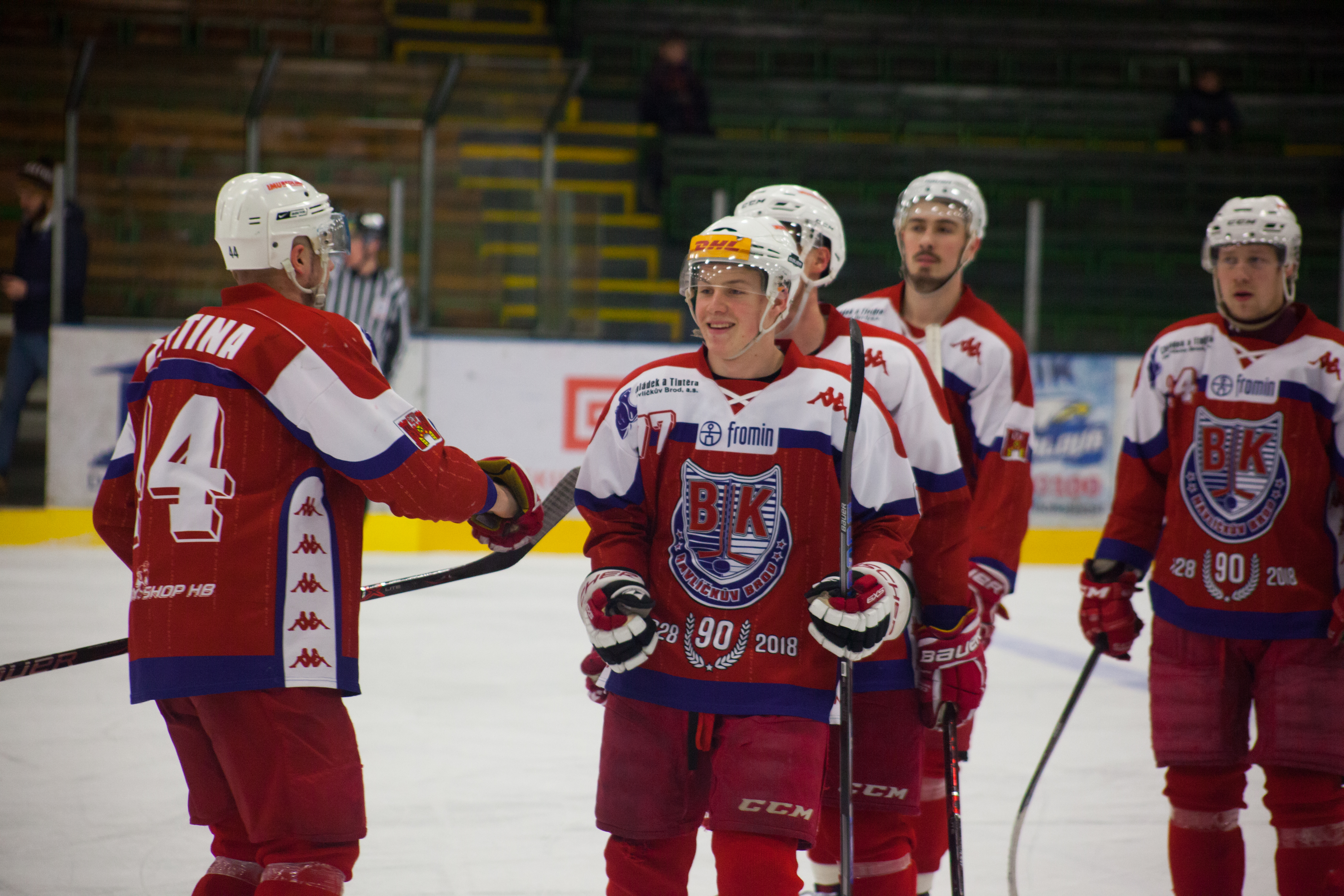 Second Czech league match between HC Orlová-BK Havlíčkův Brod Meziříčí played on 9 February 2019